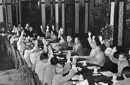 The Central People's Government Committee adopted the Draft of the Constitution of the People's Republic of China on June 14, 1954. 中文（中国大陆）: 1954年6月14日，中央人民政府委员会第30次会议通过《中华人民共和国宪法草案》和关于公布宪法草案的决议。